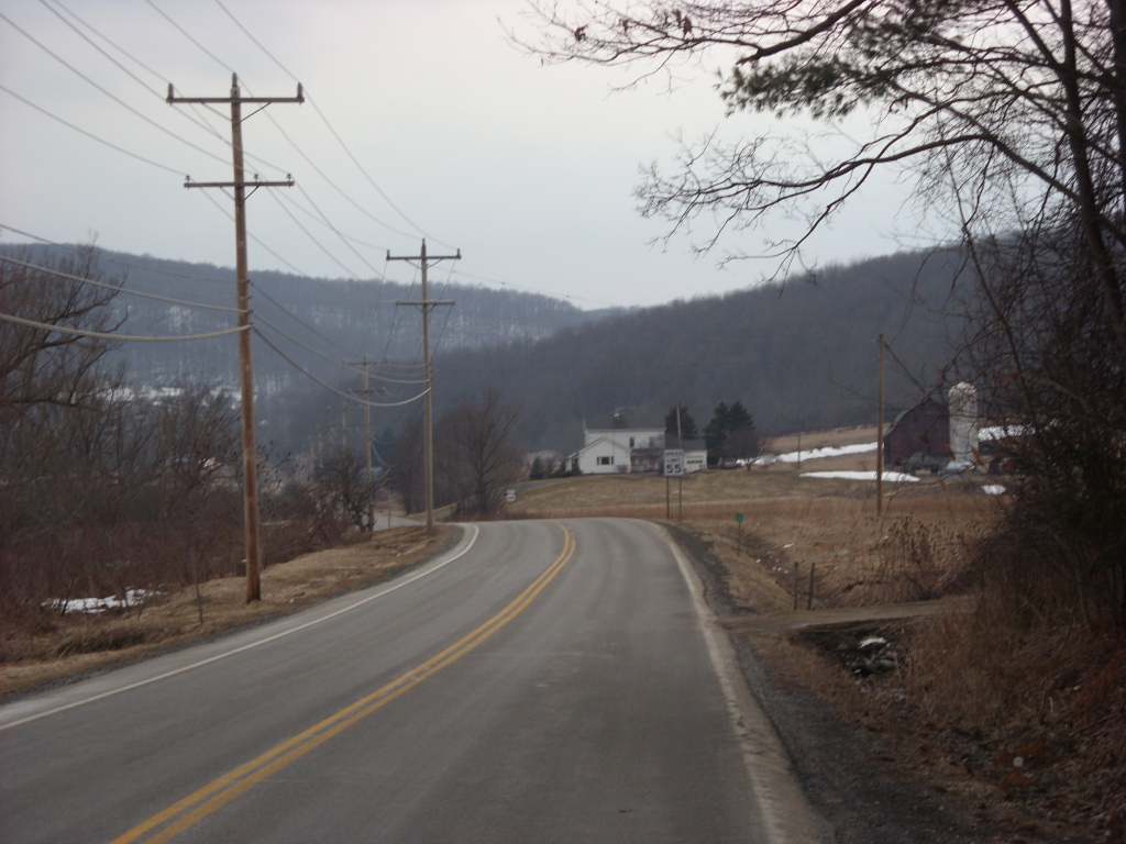 Westbound on New York State Route 446 just west of West Shore Road in the town of Hinsdale.